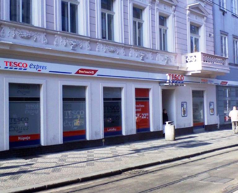 Tesco Express Prague - Bělehradská street